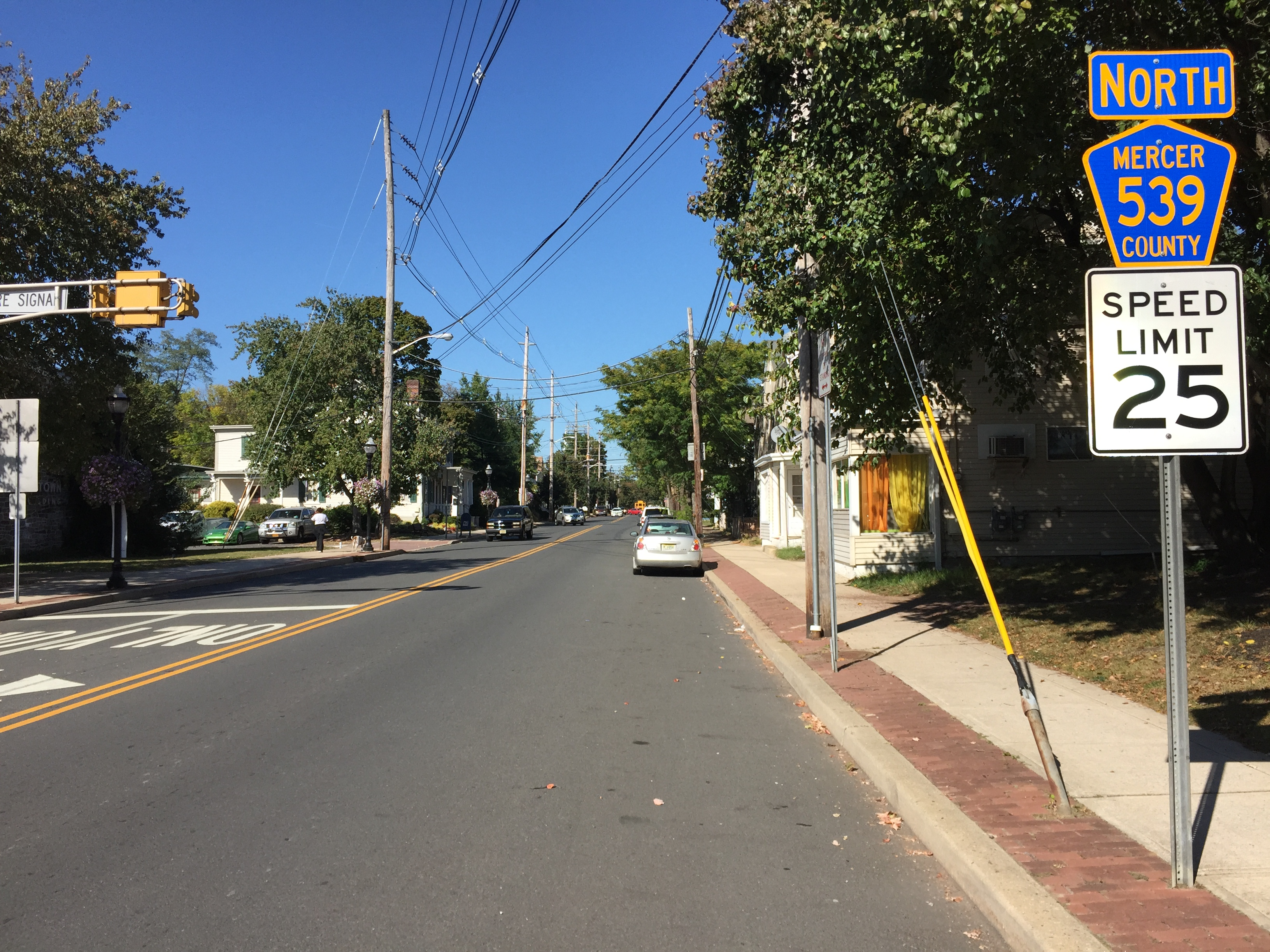 View north along Main Street (Mercer County Route 539) at New Jersey State Route 33 (Franklin Street) in Hightstown Borough, Mercer County, New Jersey